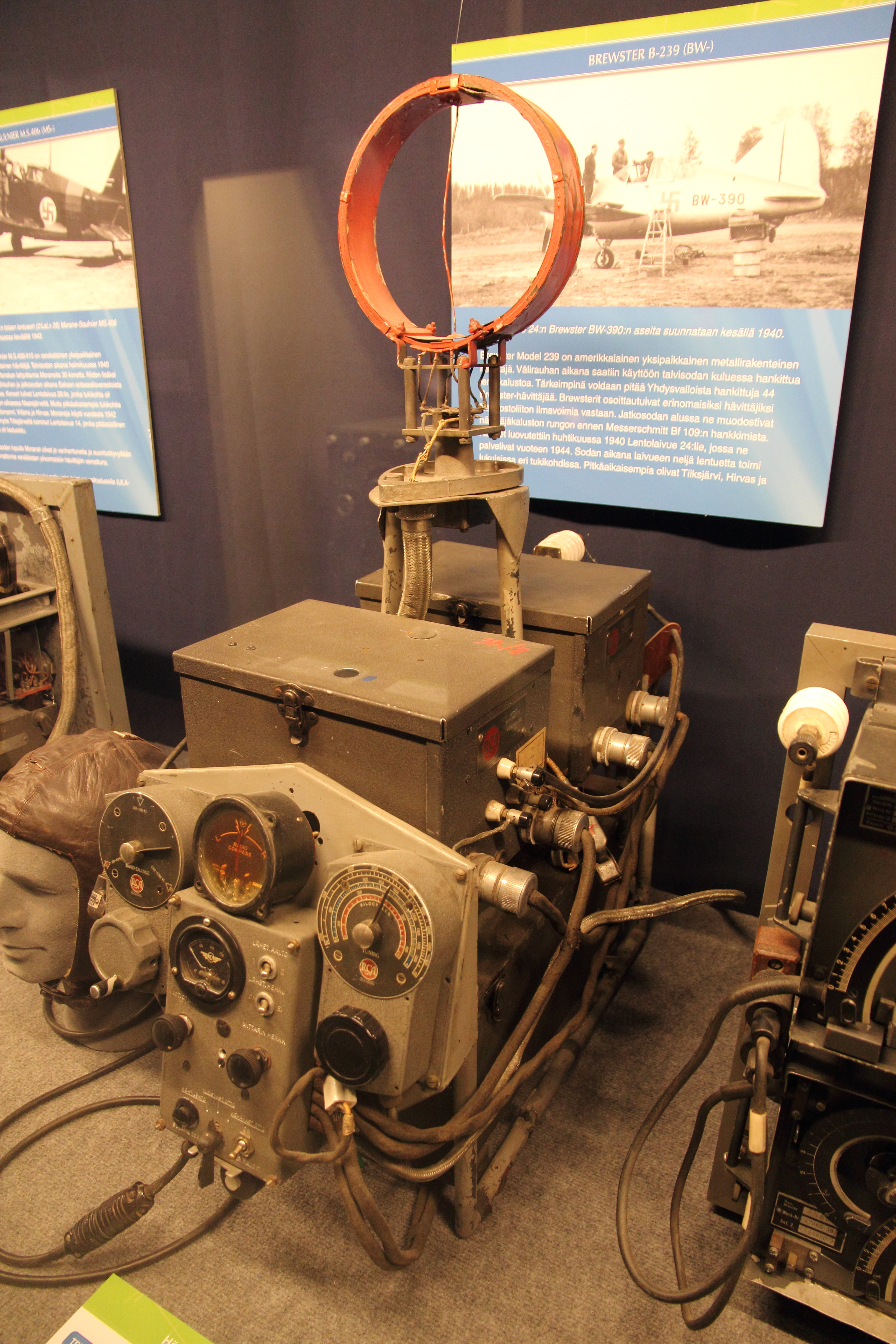 American RCA AVT-7B radio used in Brewster B-239 fighters. The radio includes a homing device. Photographed in the Finnish Air Force signals museum.